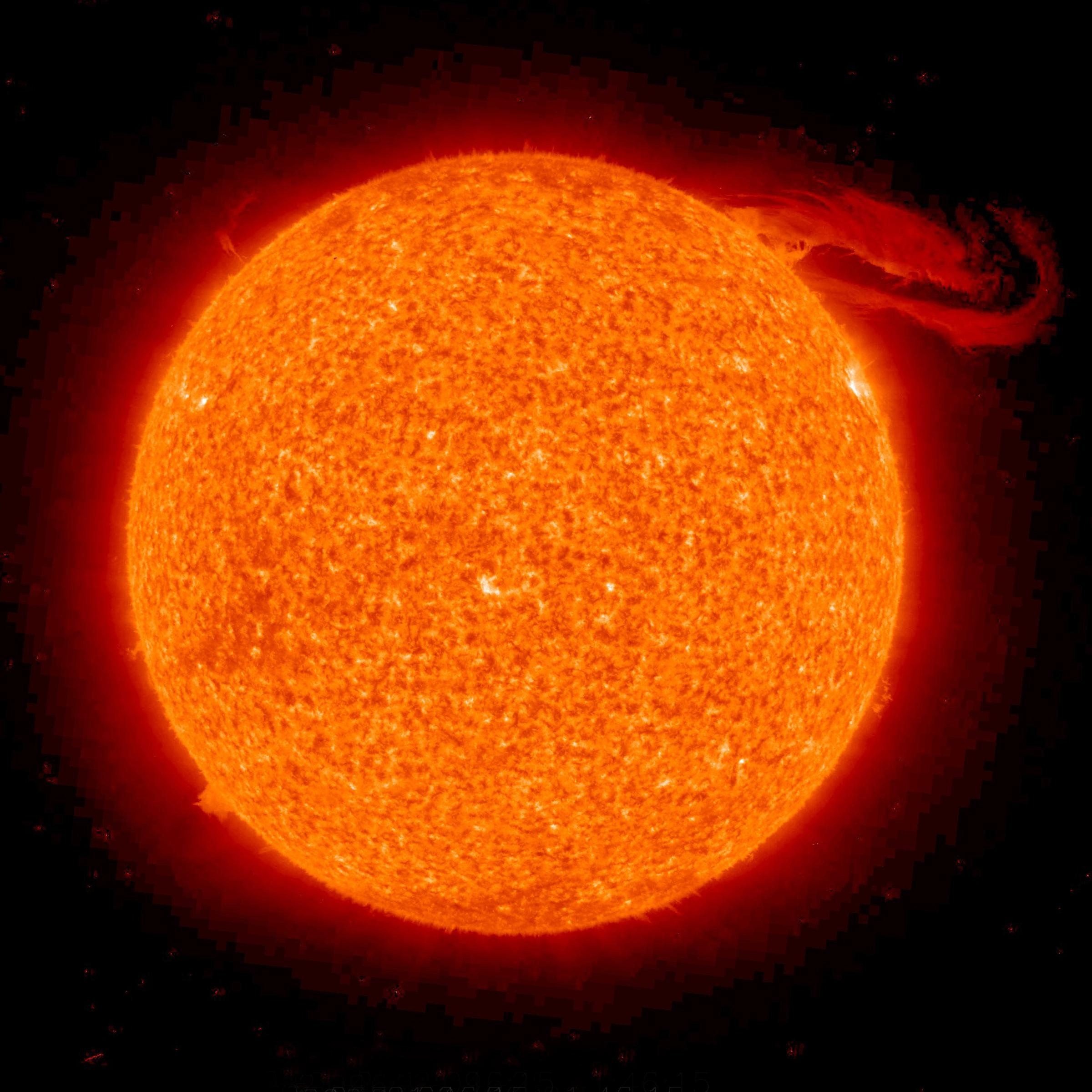 The STEREO (Ahead) spacecraft observed this visually stunning solar prominence eruption on September 29, 2008, in the 304 angstrom wavelength of extreme UV light. Prominences are relatively cool clouds of gas suspended above the sun and controlled by magnetic forces. The prominence rose and cascaded to the right over several hours, appearing something like a flag unfurling, as it broke apart and headed into space. The prominence is composed of ionized Helium that is about 60,000 degrees Kelvin.